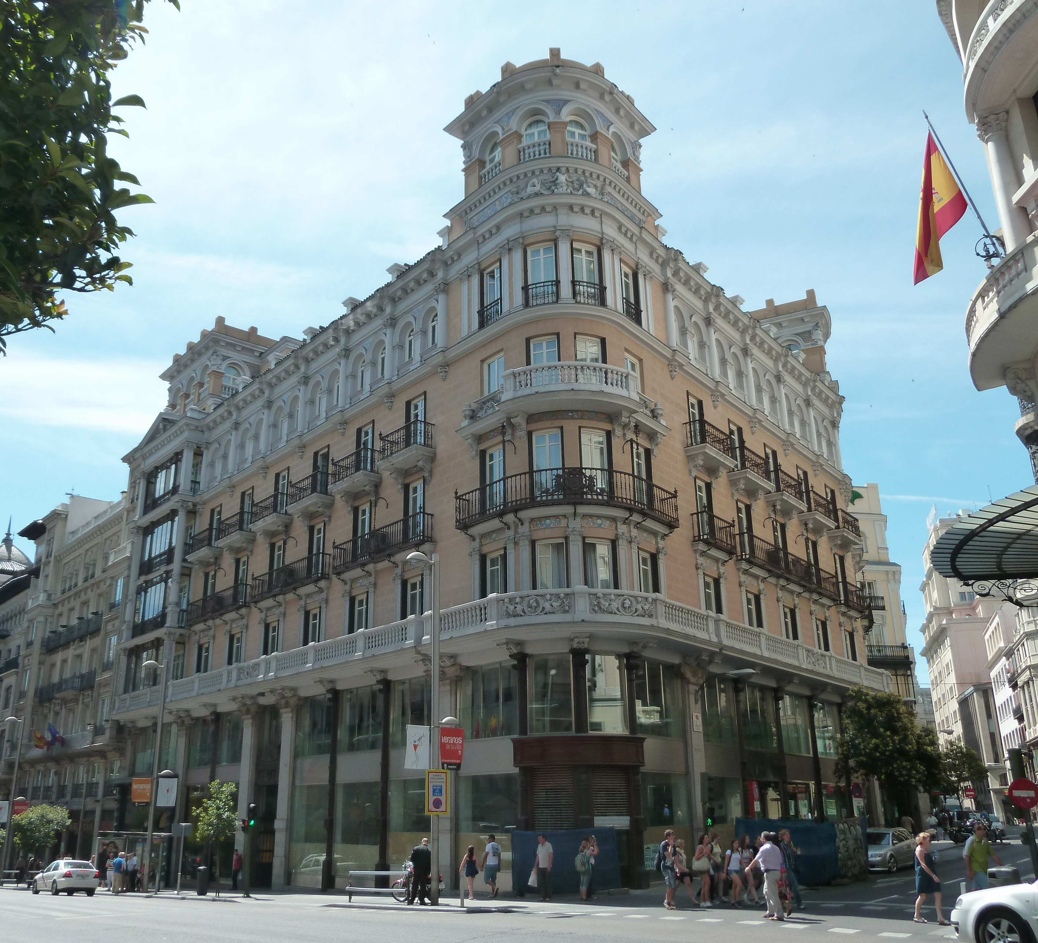 Façade of Hotel de las Letras in Madrid (Spain).